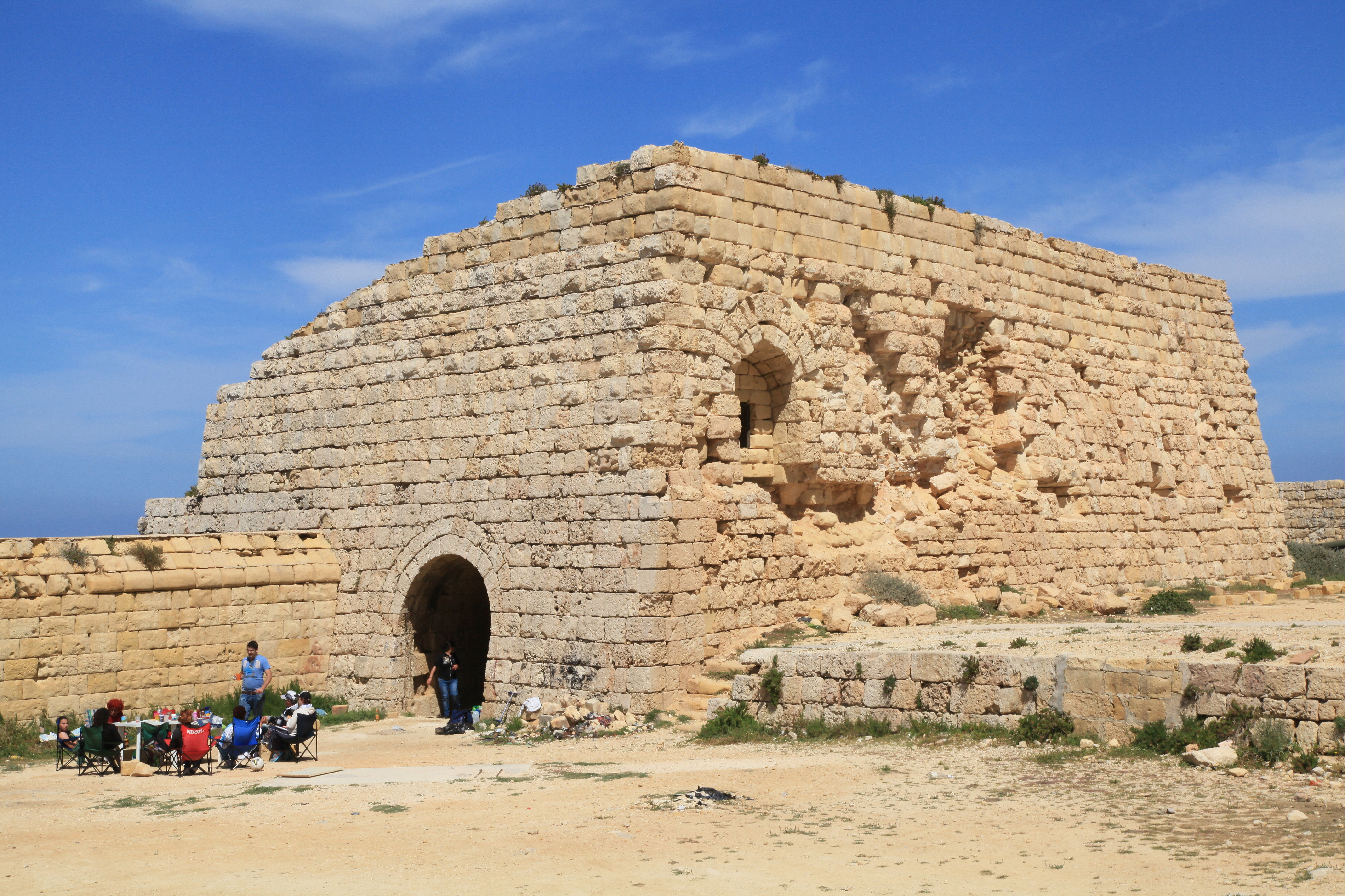 Fort Ricasoli at Triq Santu Rokku in Kalkara, Malta